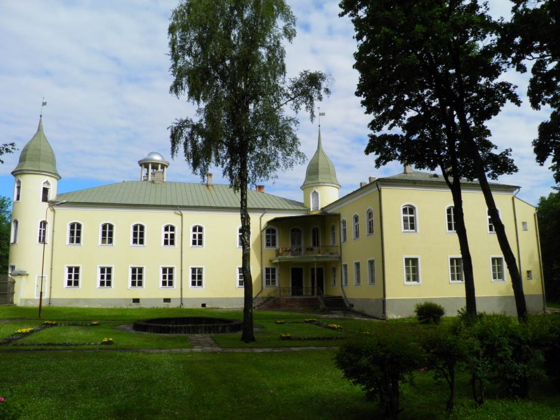 Krustpils Castle in Jēkabpils